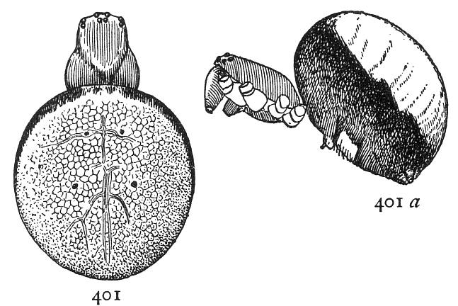 Epeira thaddeus, enlarged four times.